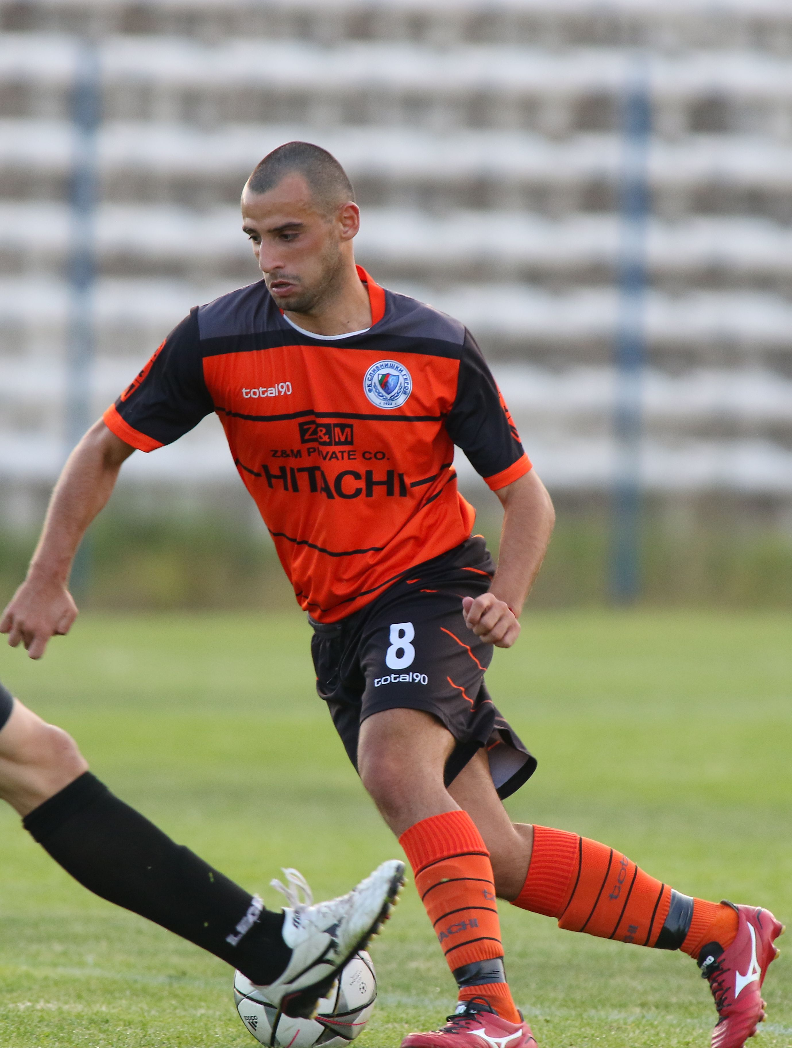 Nikolay Marinov - Bulgarian soccer player